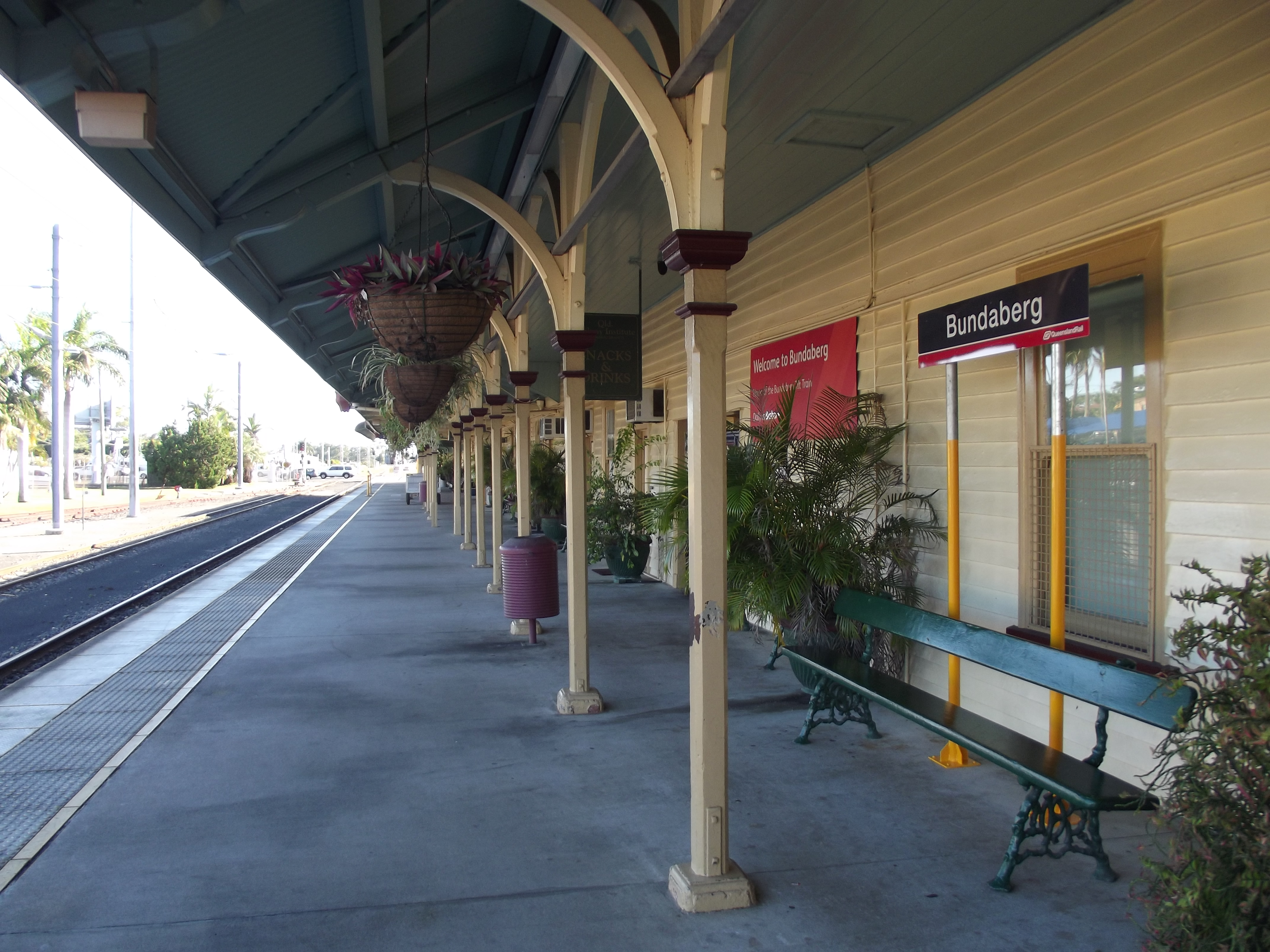 A photo of the Bundaberg railway station, operated by Queensland Rail, located in Fraser Coast, Australia.